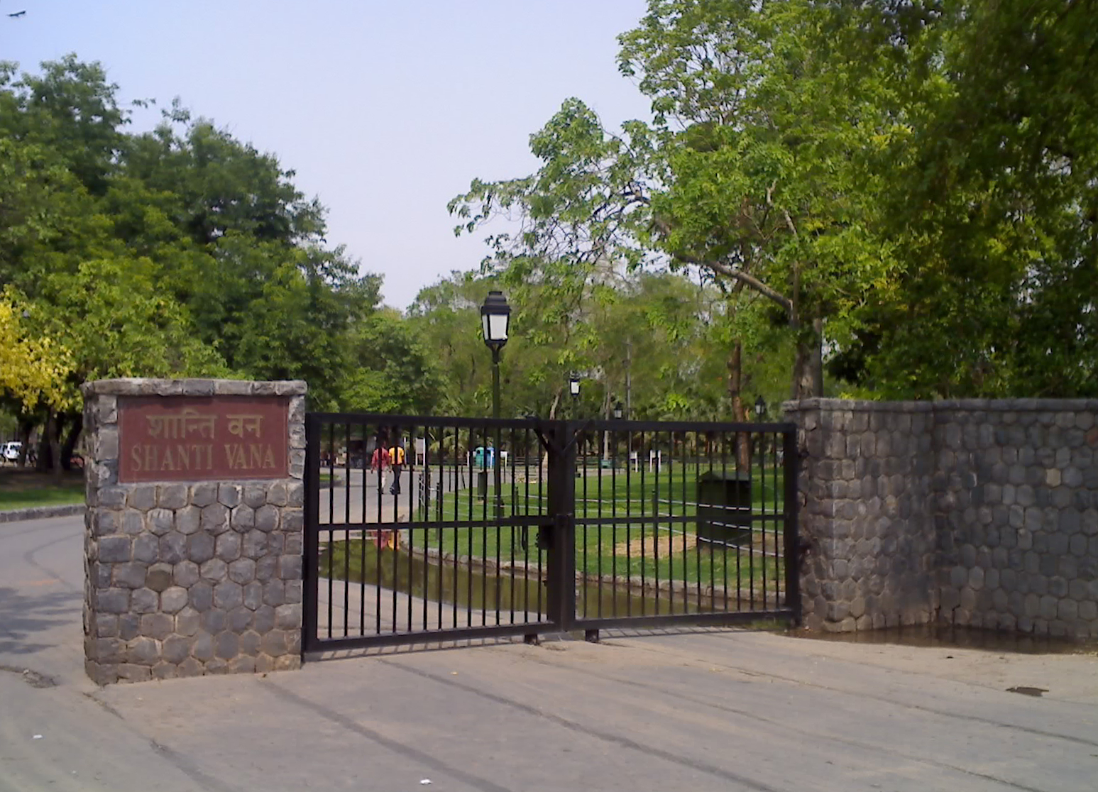 Burial memorial of Indian leaders, Shanti van , Delhi